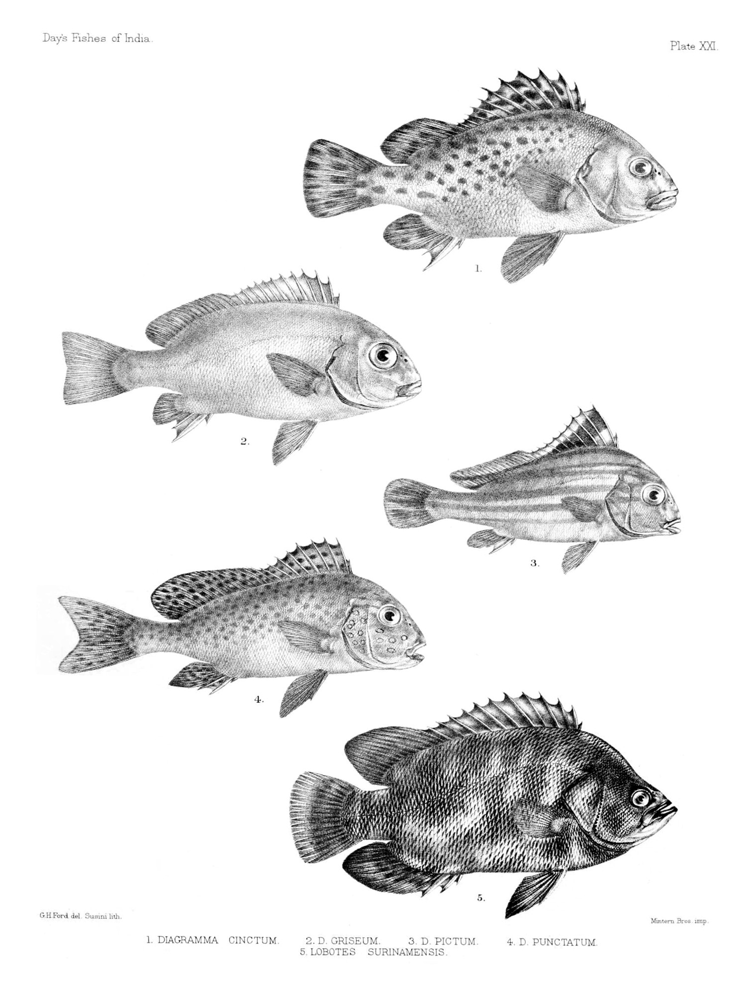 1 – Diagramma cinctum (=Plectorhinchus cinctus), 2 – Diagramma griseum (=Plectorhinchus schotaf), 3 – Diagramma pictum, 4 – Diagramma punctatum, 5 – Lobotes surinamensis.